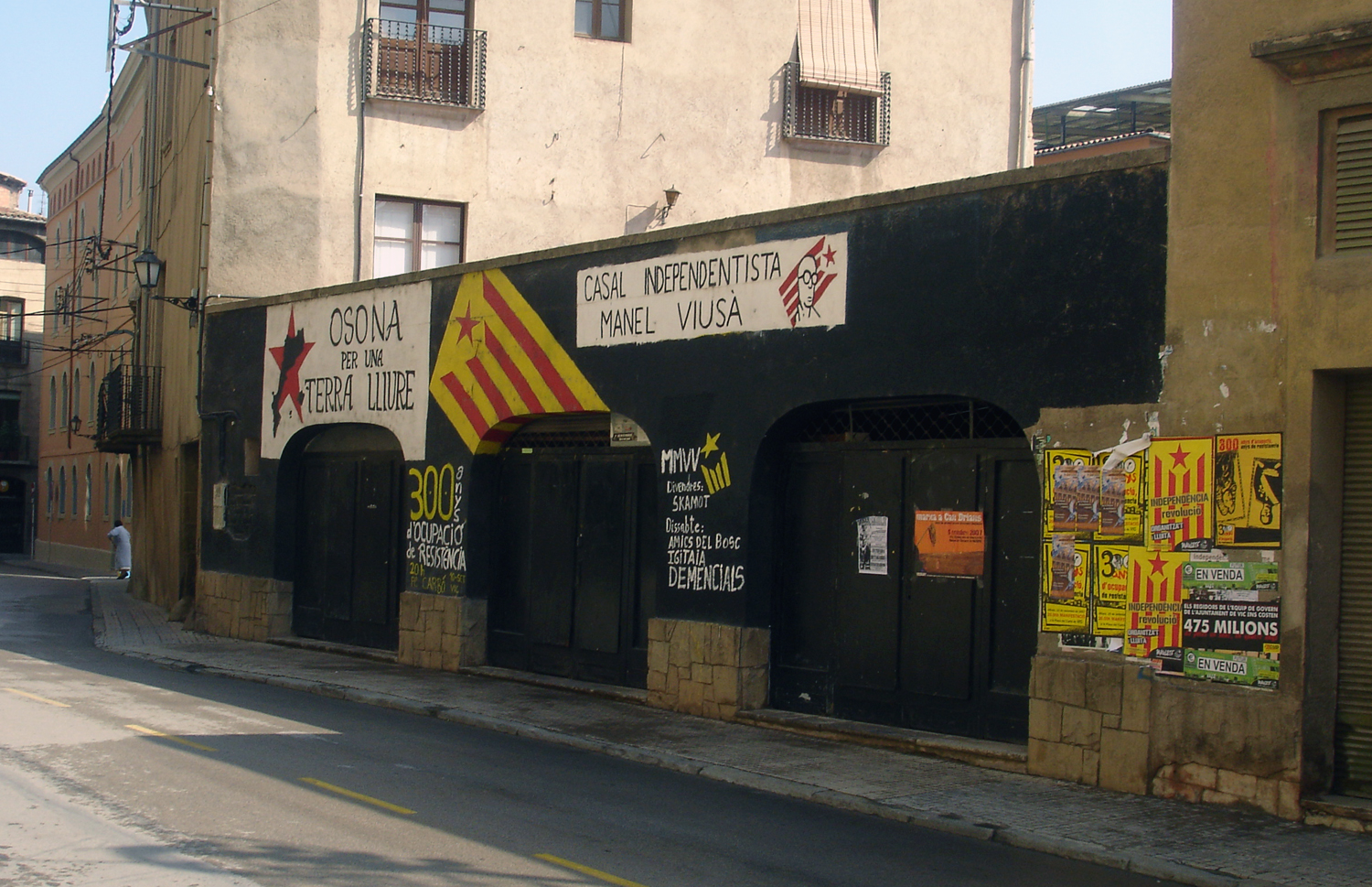 Catalonia Independence movement: ""Casal Independentista Manel Viusà"" (Vic, Catalonia, Spain)